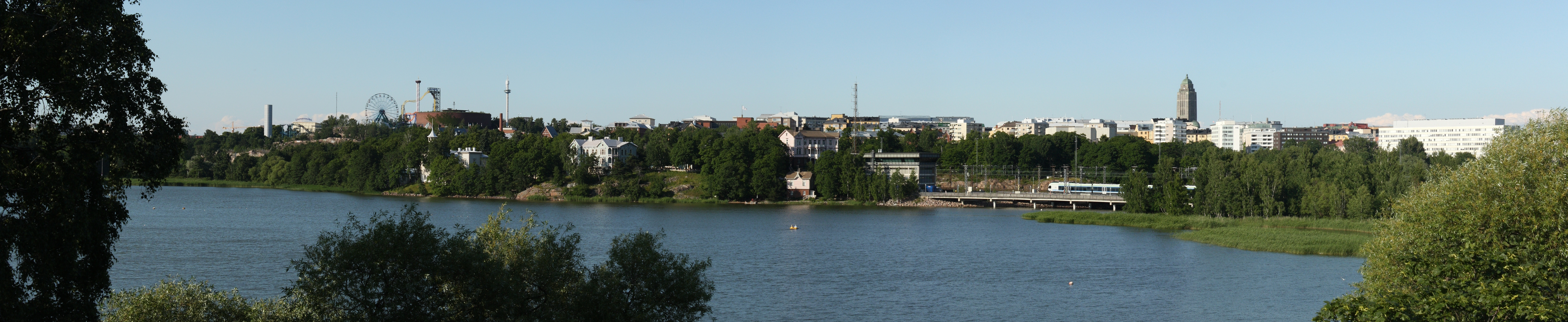 The district of Kallio as seen from across the Töölönlahti bay in Helsinki.